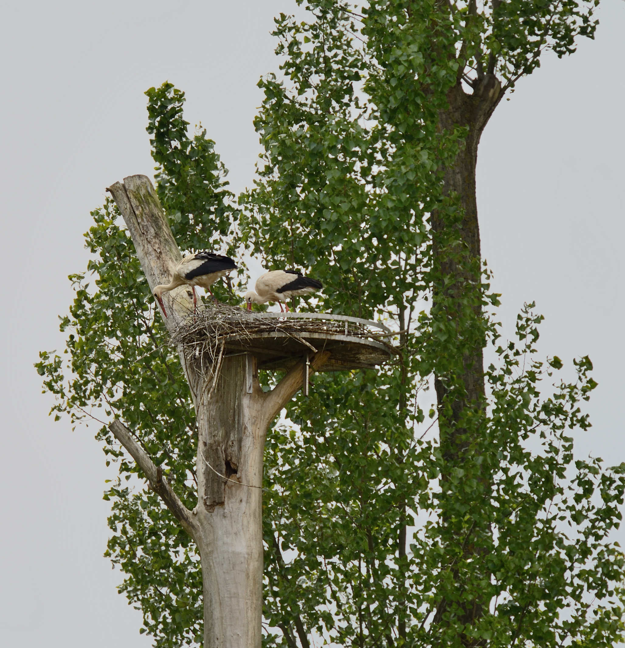 Breeding Ciconia ciconia at Lameschmuhle, commune of Mondercange, Luxembourg, in May 2013. This is the first known record of breeding activity of the White Stork in Luxembourg since 1859. The female, at right, bears a ring.